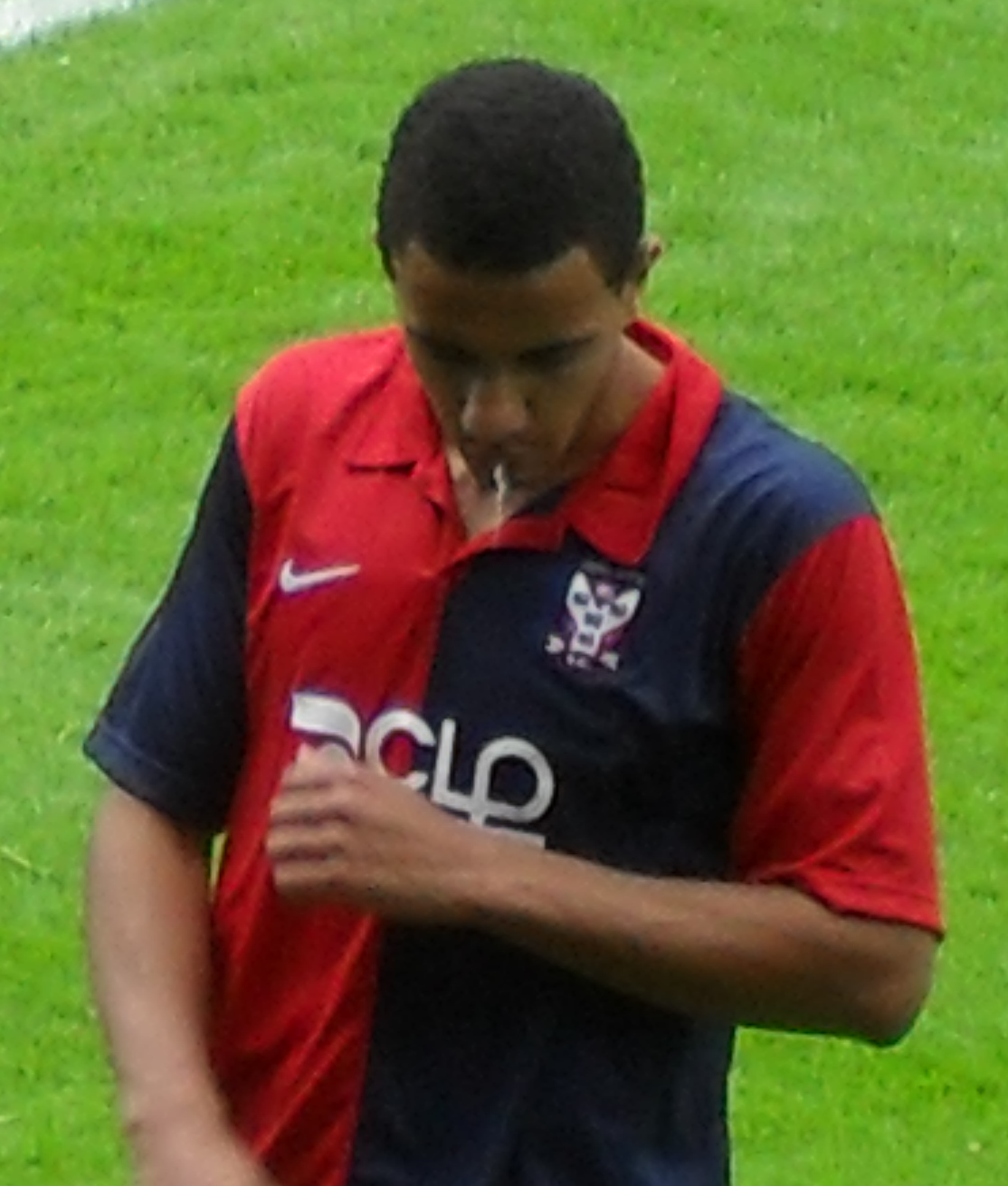 James Meredith